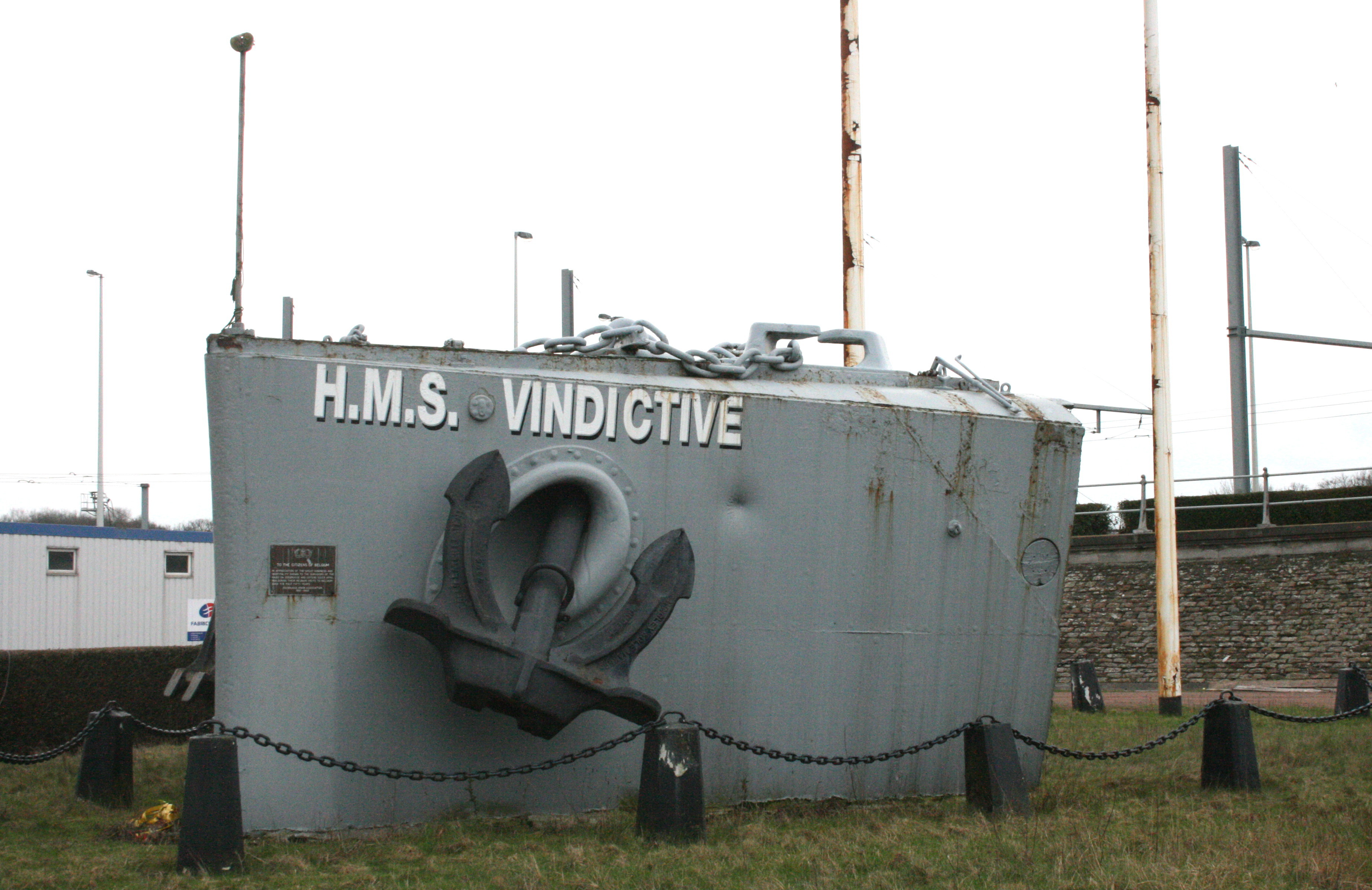 H.M.S. Vindictive War Memorial in Ostend (Belgium). Bow section of the ship. Sunk in Ostend harbour in 1918. Raised in 1920.